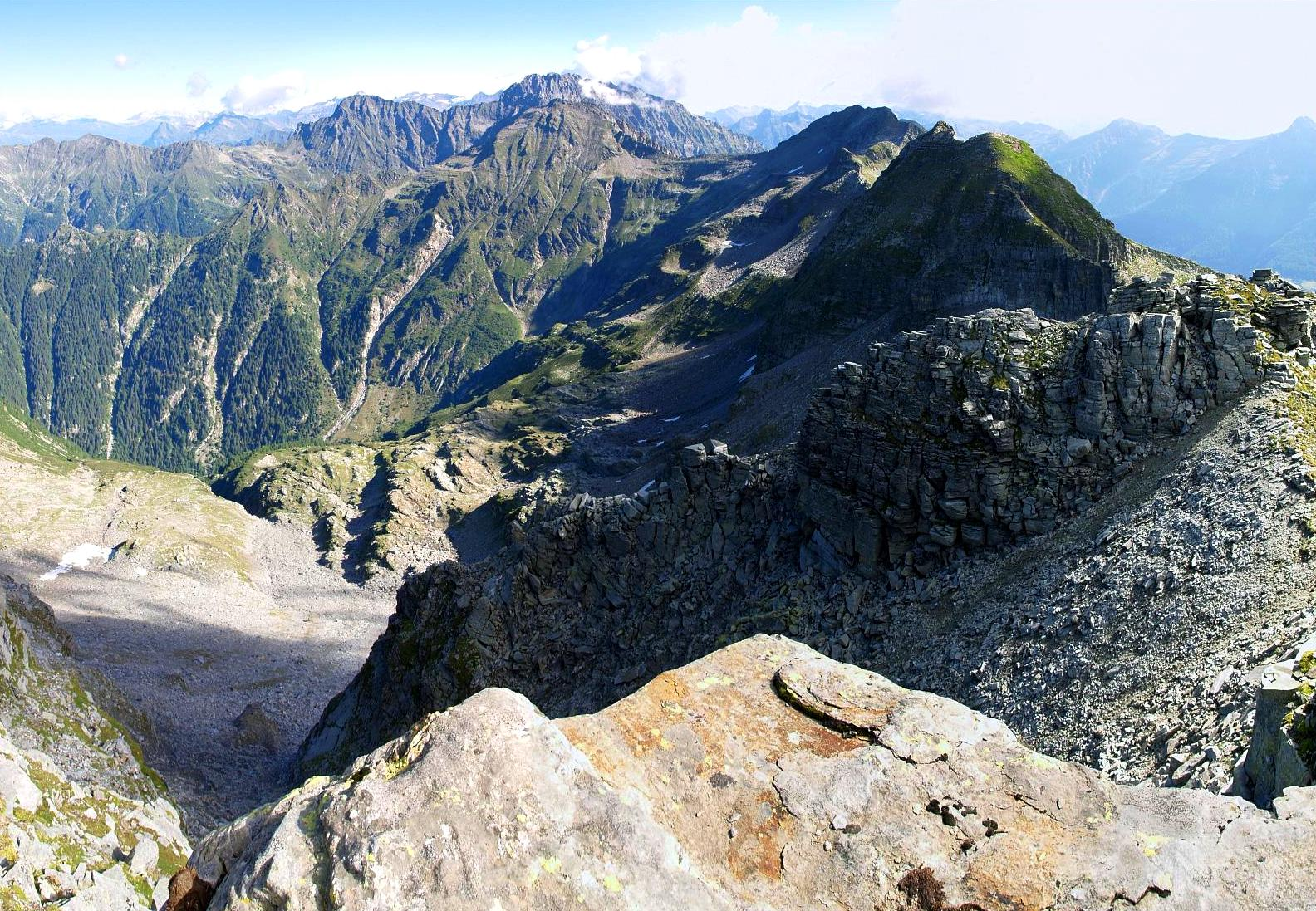 View from Pizzo di Claro, Switzerland